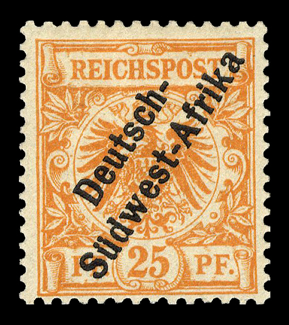 stamp series for German Colonies Ausgabepreis: 25 Pfennig First Day of Issue / Erstausgabetag: (Juli 1897, wurde nicht offiziell ausgegeben) Michel-Katalog-Nr: I (Deutsche Kolonie Südwestafrika)